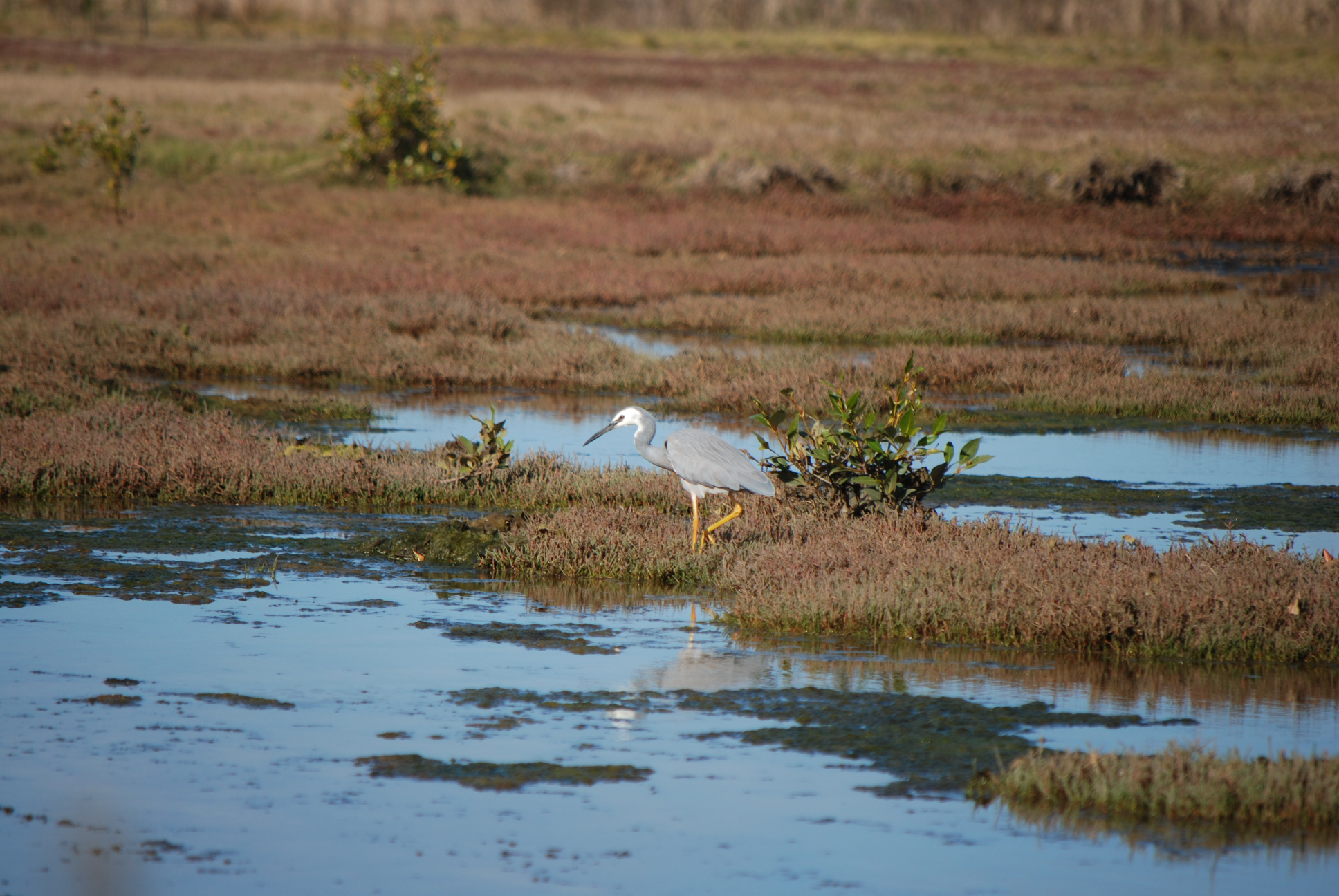 White-Faced Heron (Egretta novaehollandiae) at Boondall Wetlands, Queensland, Australia